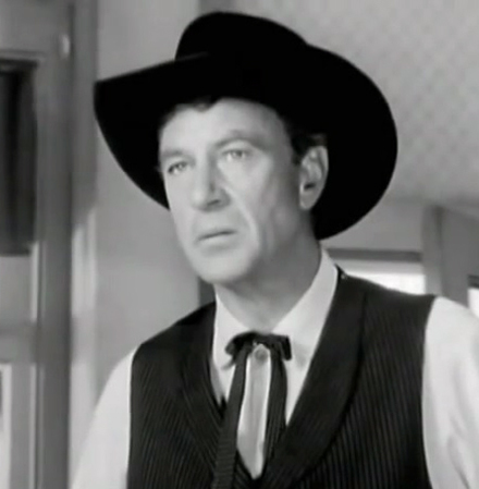 Gary Cooper in the film trailer for High Noon, 1952